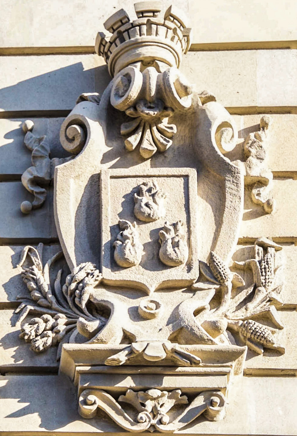 Mayoralty of Baku facade detail